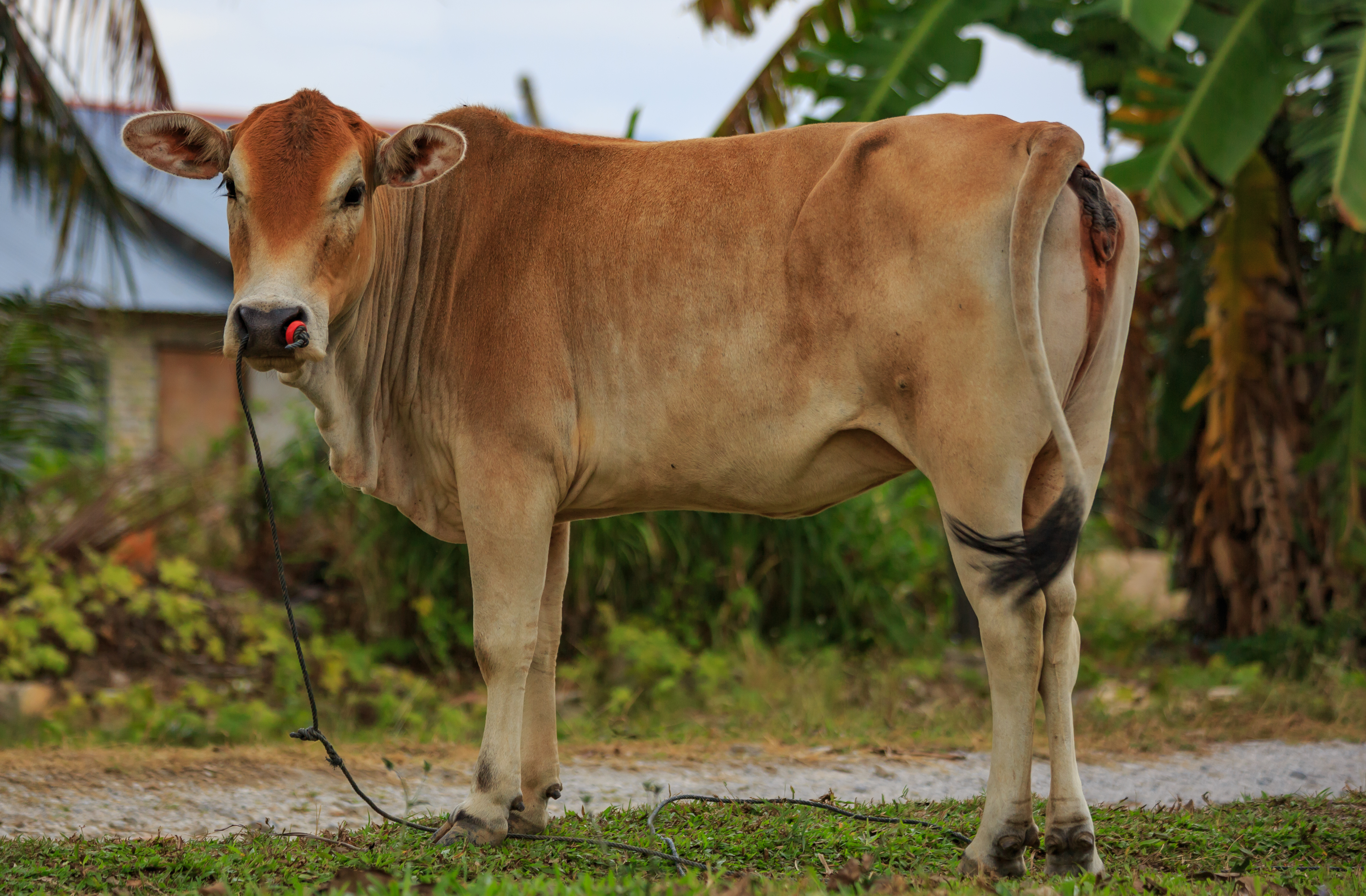 Langkawi, Malaysia: Cow at Padang Mat Sirat